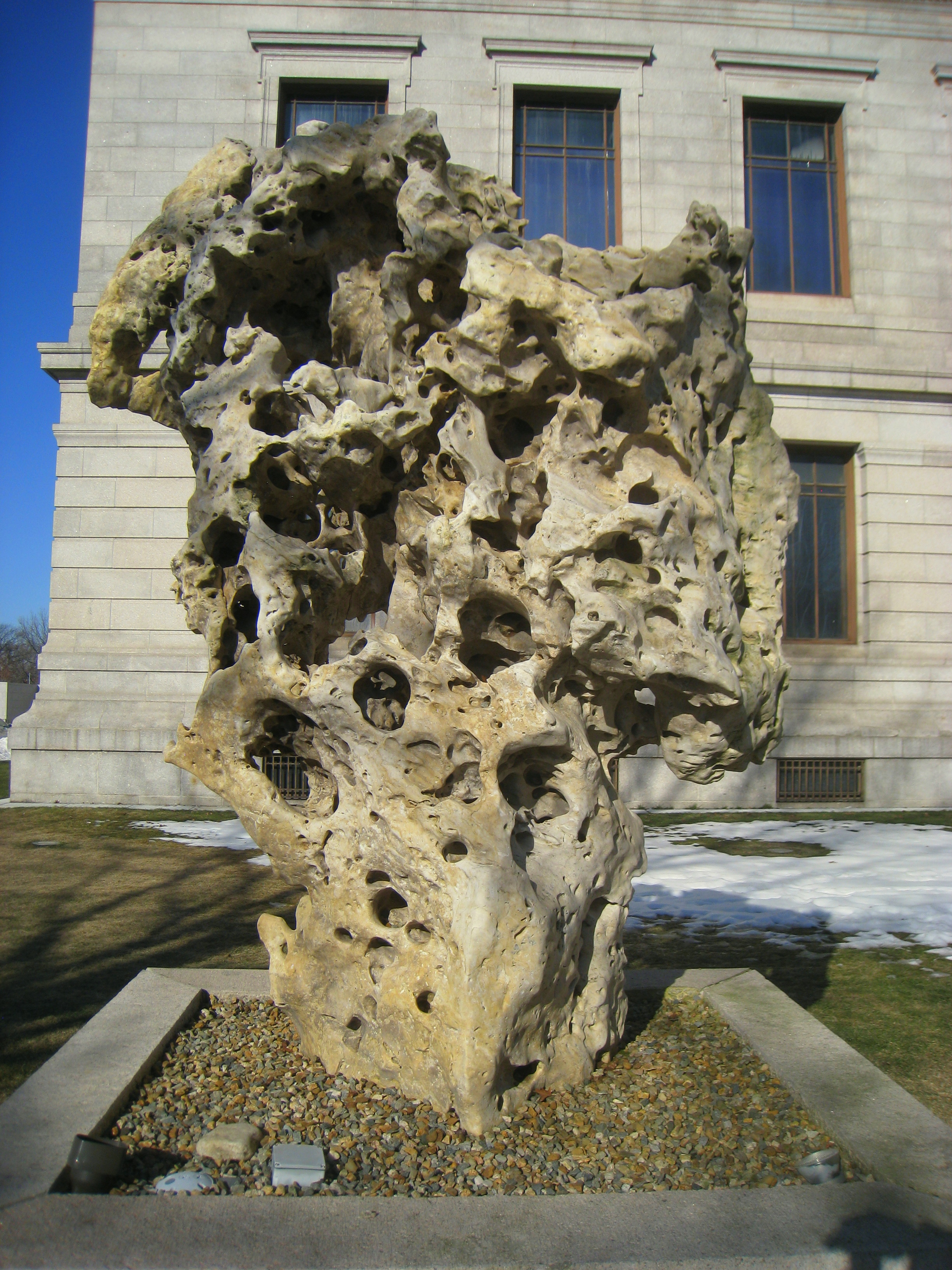 Chinese scholar stone from Lake Taihu, outside of the Museum of Fine Arts, Boston, Massachusetts, USA. Sculptor Cyrus E. Dallin, 1909.